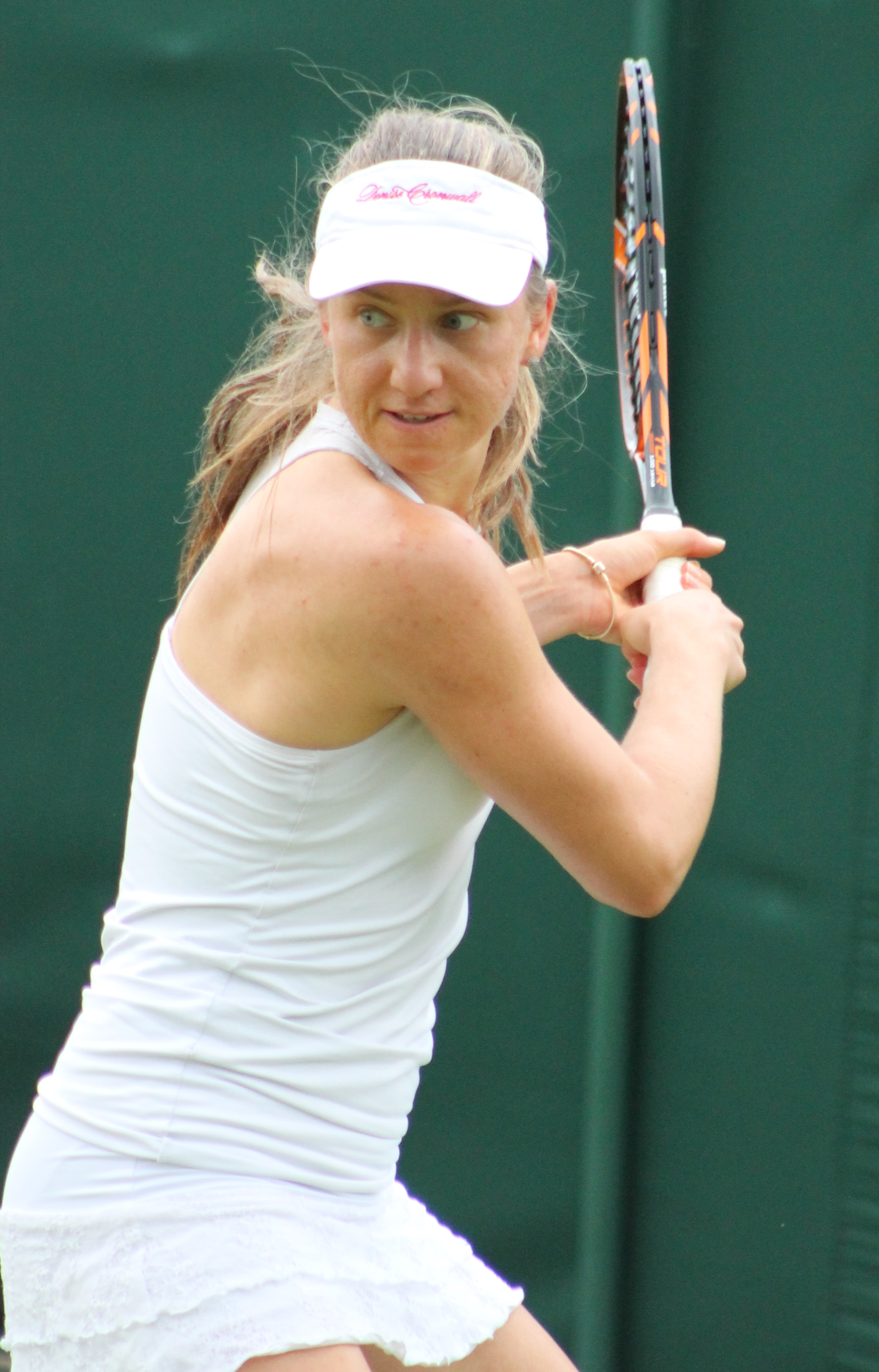 Barthel WM14 (1)